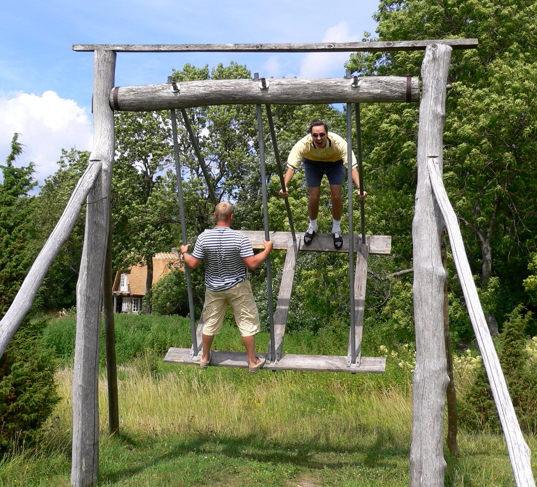 Traditional Estonian swing at Pädaste Manor. When the top bar is missing, the serious fun is to do a full circle.